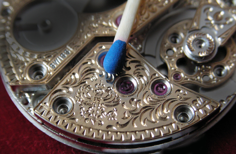 Production shot from the engravers workbench: The Eagle of Prussia is slightly larger than the head of a match.